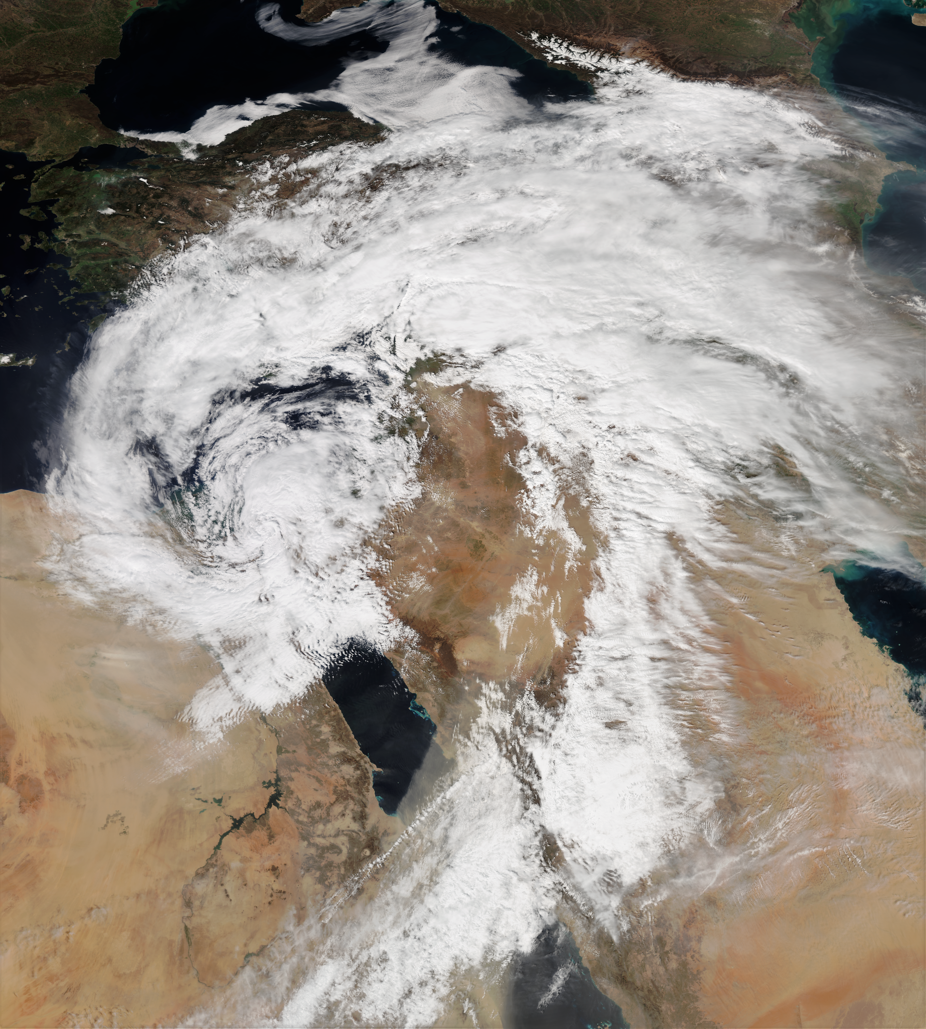 The storm system, nicknamed the "Dragon Storm", responsible for severe flooding and the cause of 21 deaths in Egypt on March 13.